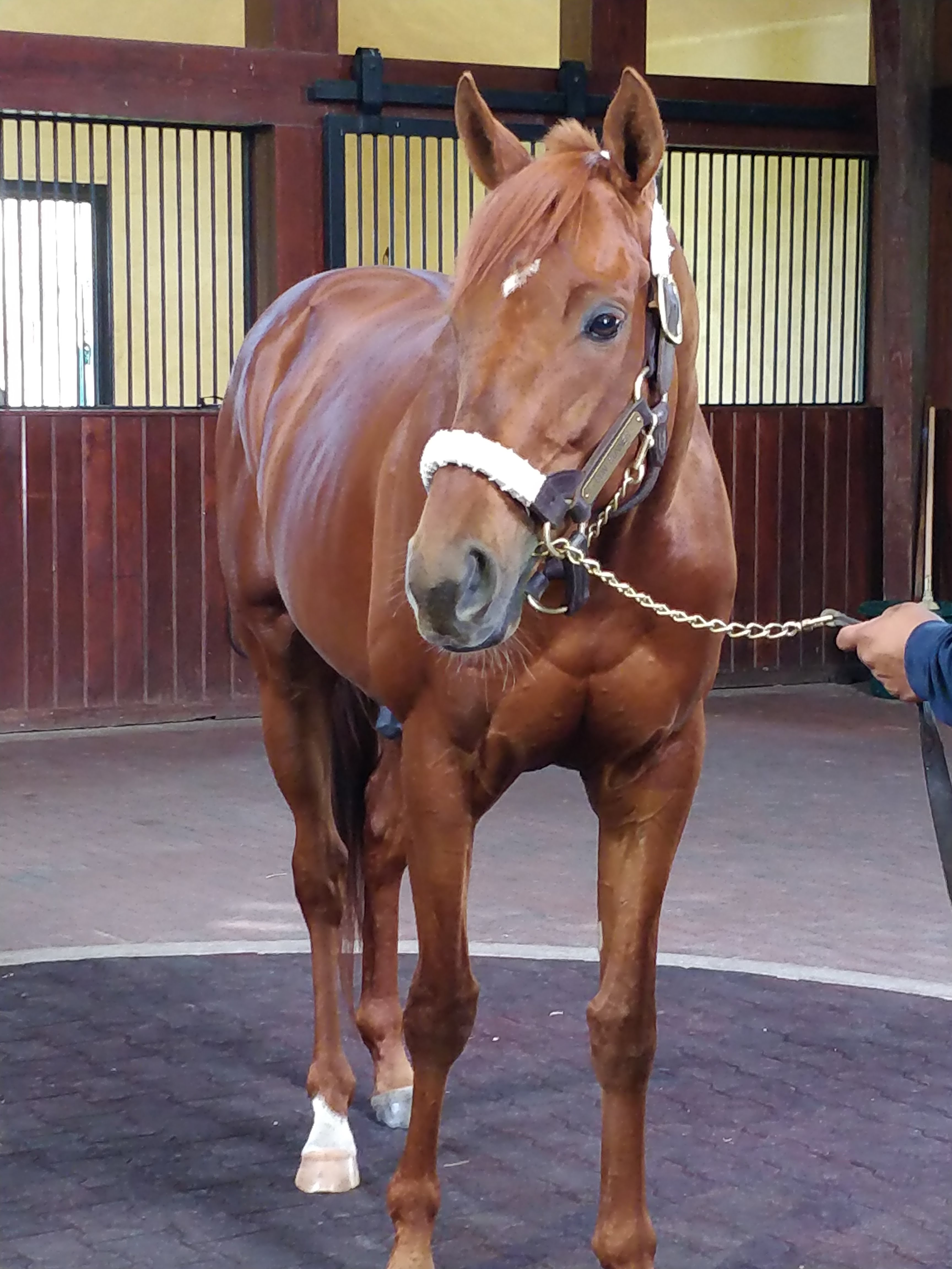 A tour of Three Chimneys farm - Gun Runner Feel free to use this photo however you like, just attribute . Thanks!